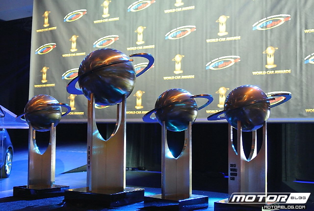 NYIAS 2013 | World Car Awards @ New York Autoshow _____________ Please feel free to use this image for FREE under the Creative Commons (CC) licence. However, if you use the image, pls set a backlink to and give credit as following: "Image: ". Thanks For highres images or any other inquiries pls .